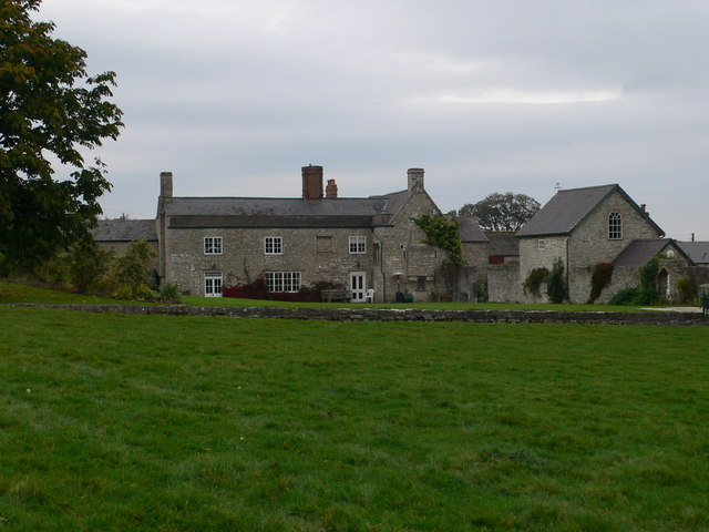 Foxhall Medieval farmhouse with a ha-ha in front. This was the family home of Humphrey Llwyd, a man described by the Bible translator William Salesbury as 'the Welshman most universally learned in history, and most singularly skilled in rare subtleties.'His chief claim to the fame is his pioneering map of Wales. This was sent from Denbigh - where Llwyd lay dying, aged forth-one, of a fever caught in London - to the Antwerp publisher Ortelius. It appeared in 1573 in Ortelius' famous world atlas - Theatrum Orbis Terrarum - the first map of Wales ever published.